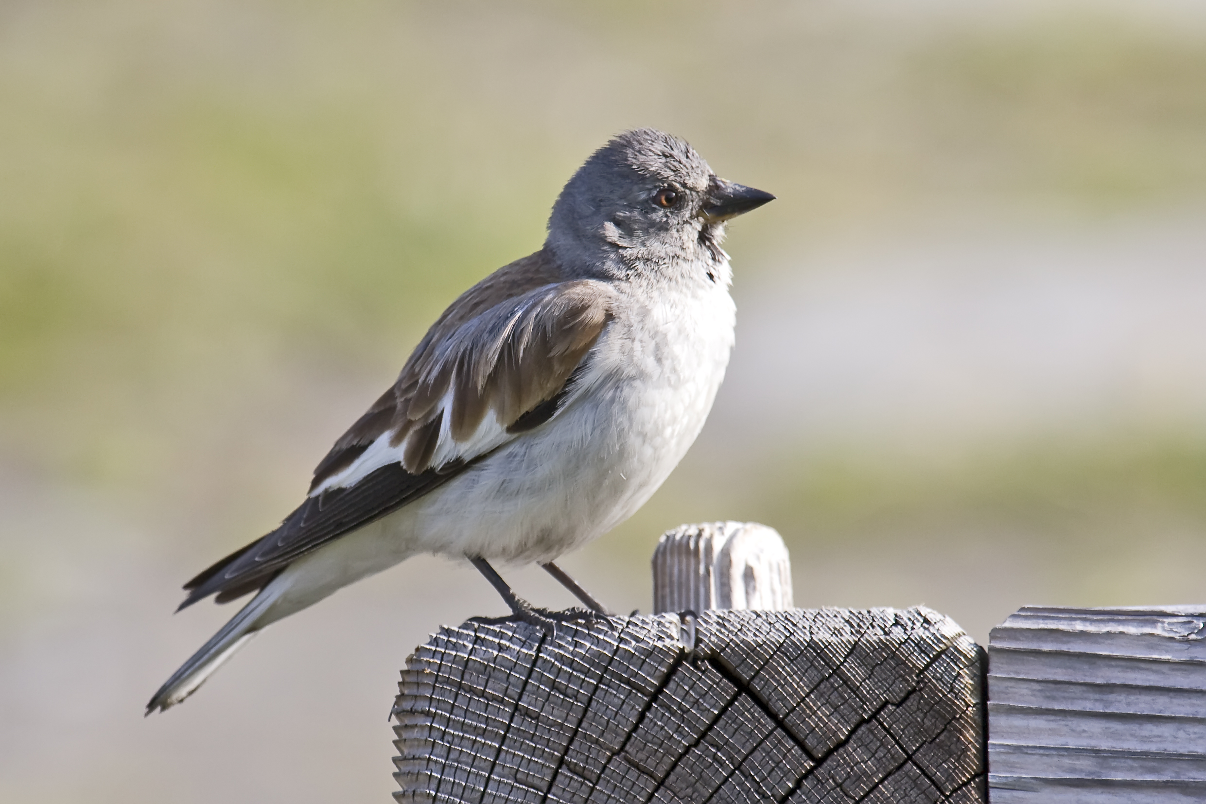 Snowfinch